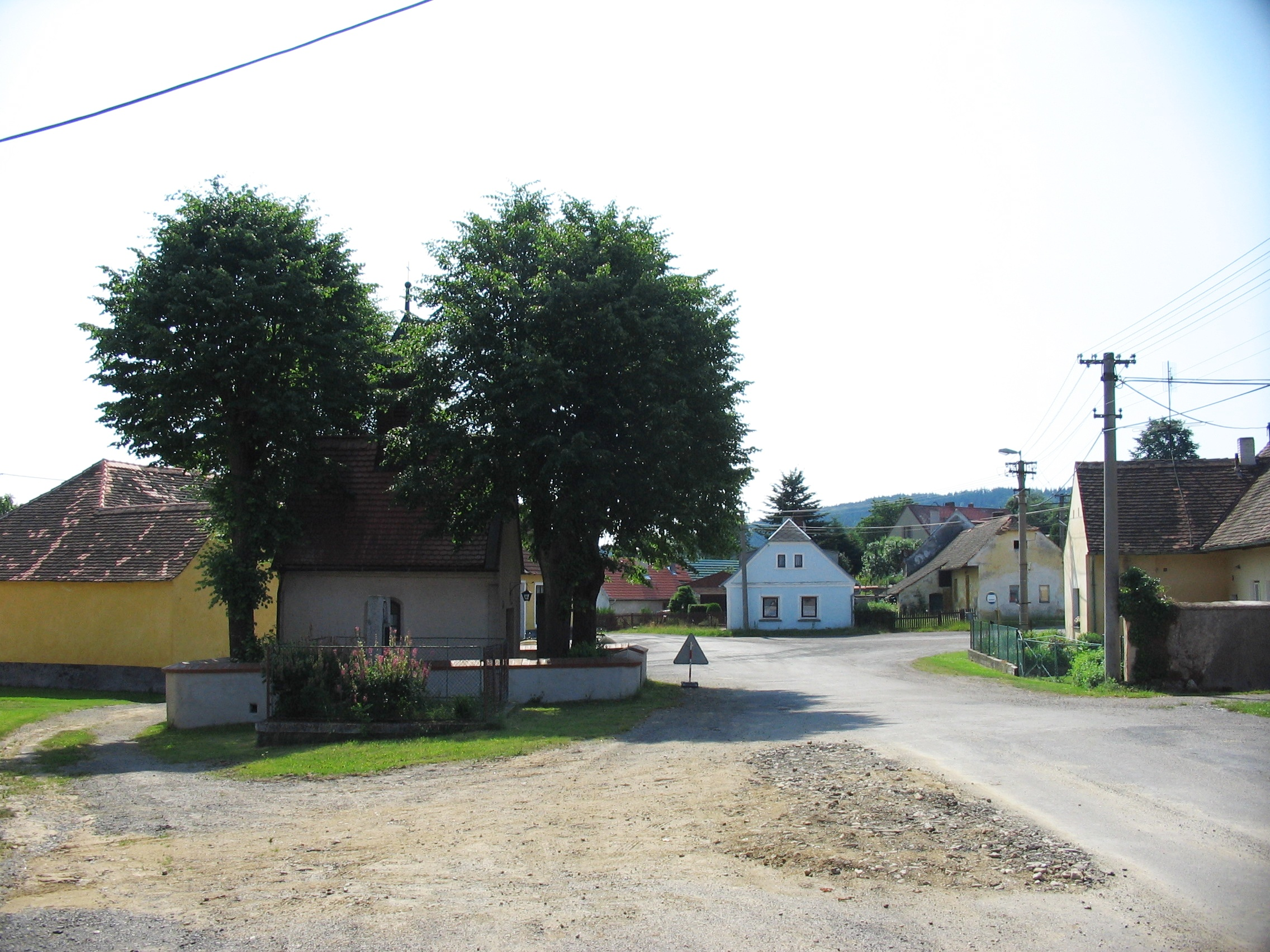 Chapel on the village square in Domoraz, Klatovy District, Czech Republic